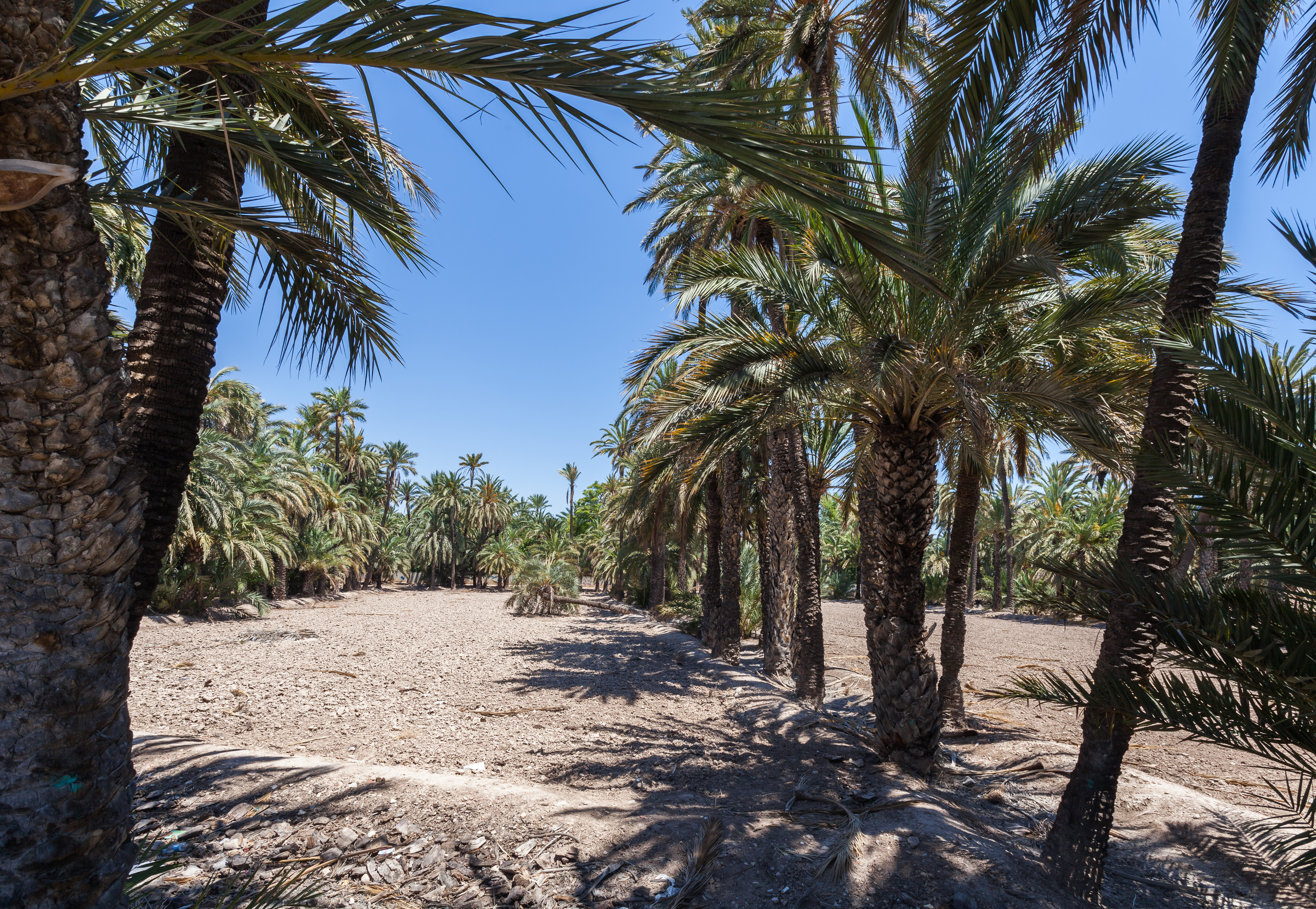 Palmeral, Elche, Spain